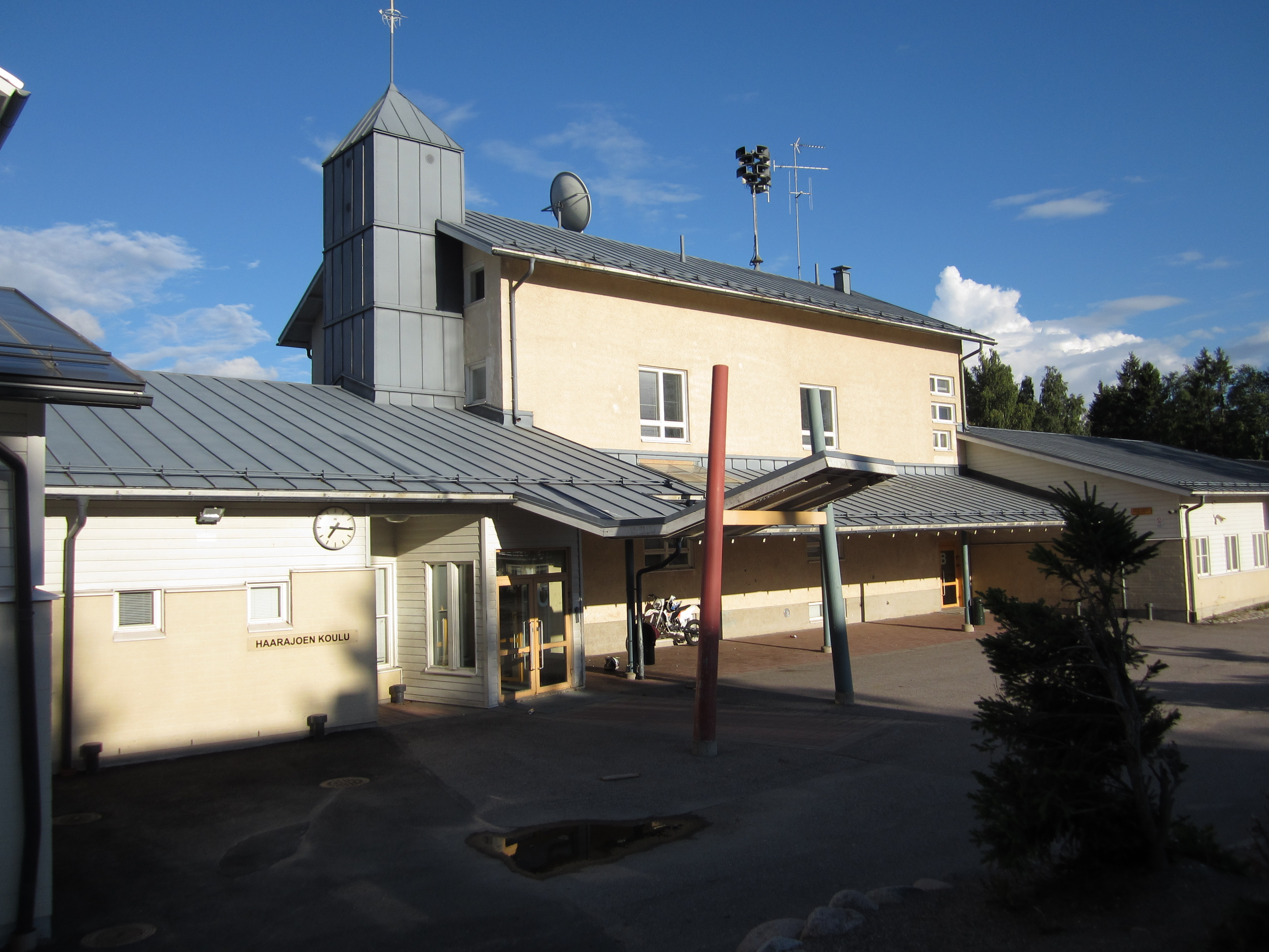 Haarajoki primary school in Järvenpää, Finland